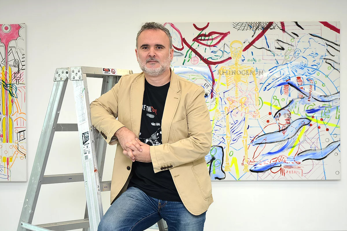 Profile photo of artist, curator, and academic Zoran Poposki in an art studio, taken in Hong Kong in 2018.